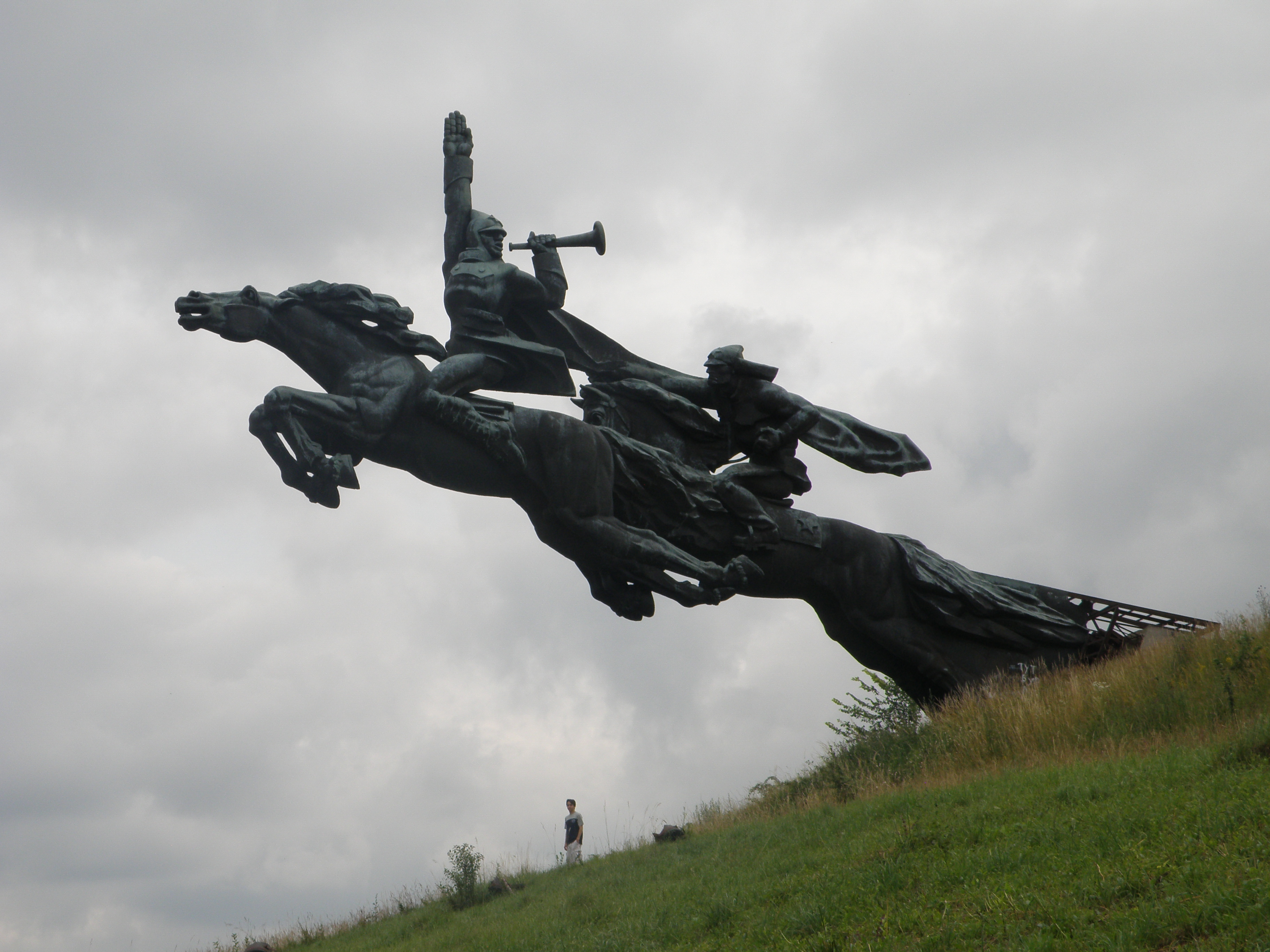 Siemion Budionny Monument (near Olesko, Ukraine)